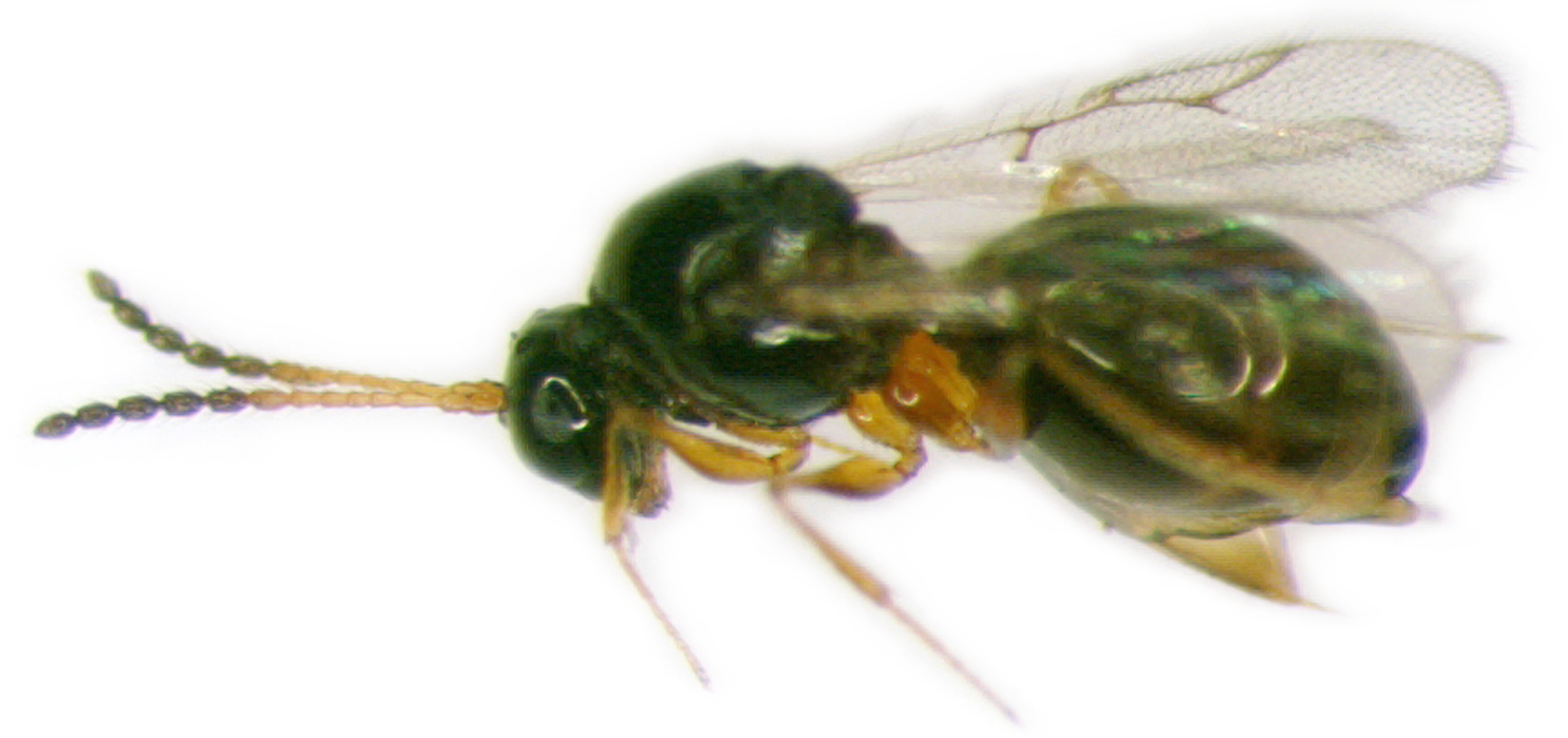 Leptopilina boulardii (family Figitidae), a parasite of Drosophila